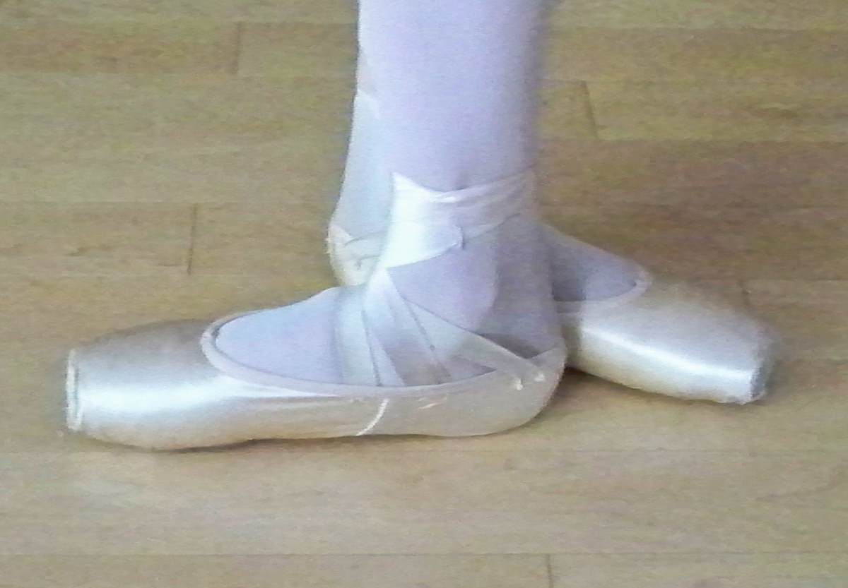 A ballet dancer demonstrating Third Position.